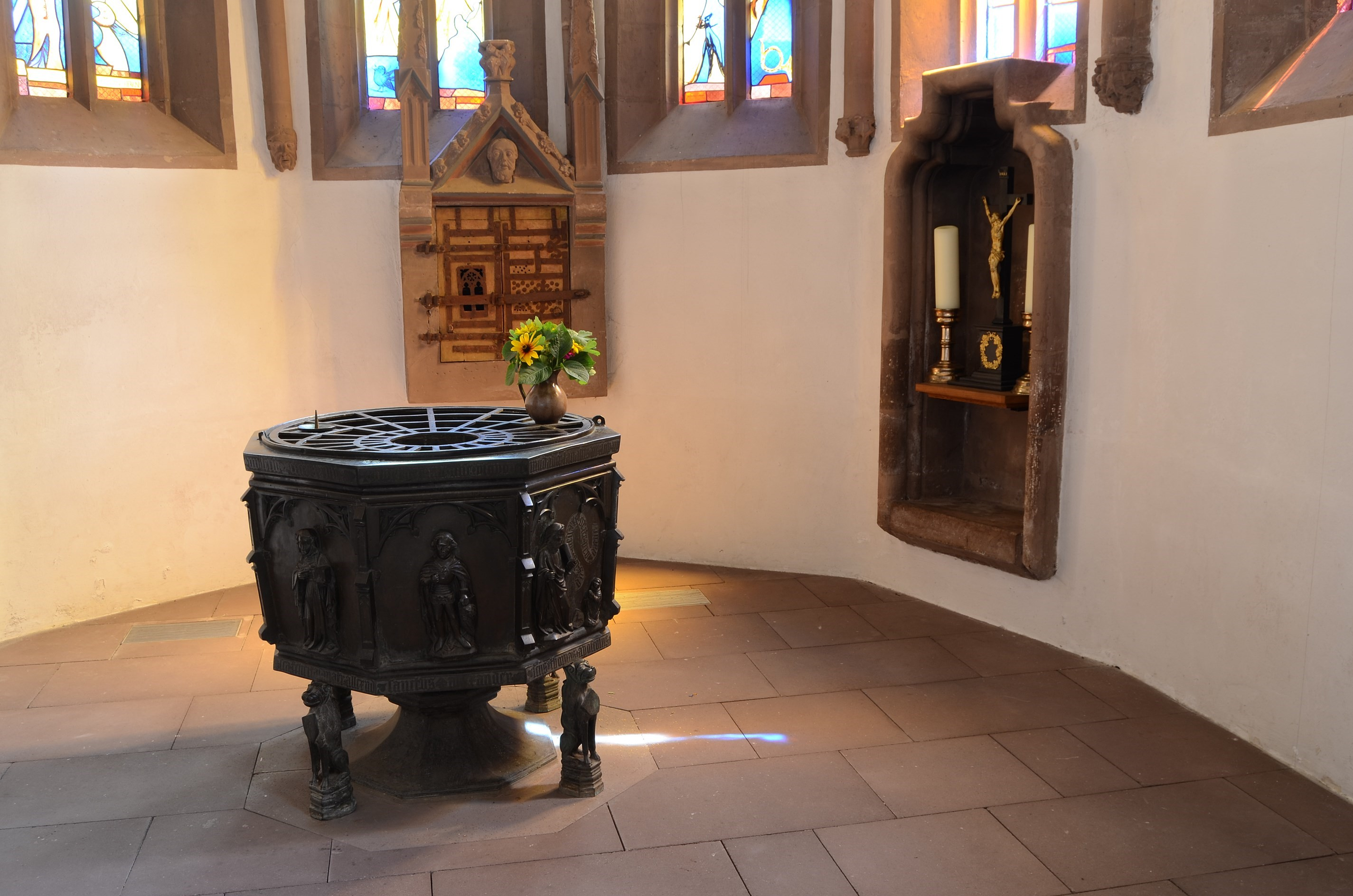 Einbeck (Lower Saxony, Germany) – Lutheran Saint Alexander Church – choir area of the right aisle This is a photograph of an architectural monument.It is on the list of cultural monuments of Einbeck This photograph was taken with a Nikon D7000